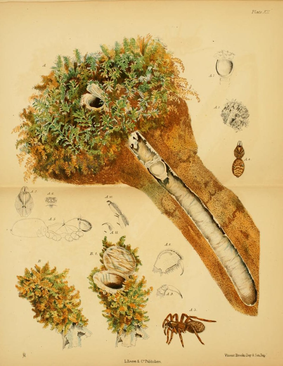 Plate XII. fig. A, — The nest of Nemesia Eleanora with the surface door artificially represented as being open ; A 1, the outer side of the surface door of the same nest into which mosses of two kinds are woven ; A 2, the second door of the same nest ; A 3, the spider ; A 4, the same deprived of its legs, from a specimen preserved in spirits [figs. A, A 1, 2, 3, and 4 are of the natural size] ; fig. A 5, the spider viewed sideways, with the legs removed ; A 6, the eyes viewed from above and in front ; A 7, the cephalothorax and falces ; A 8, the left-hand falx viewed from the inner side ; A 9, the fang of the same ; A 10, the tarsal joint of the foremost right leg ; A 1 1 , one of the two larger and the smallest claw of the same [figs. A 5, 6, 7, 8, 9, 10, and 11, magnified]; fig. B and B 1 , the upper part of the tube and door of a nest of N. Eleanora which partially projected beyond the surface of the earth and was clothed with living moss. [Figs. B and B 1 are of the natural size.]